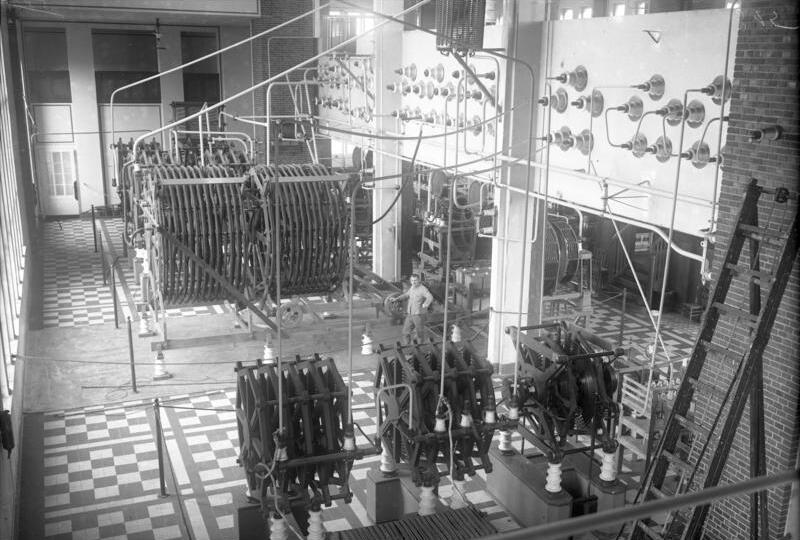 10 years of the Nauen radio station! It has been 10 years since the Nauen radio station became a large radio station with the world's best-equipped transmitter. Seven shortwave transmitters broadcast from the grounds of the Nauen radio station, and with a range of over 20,000 kilometers dominate the entire globe. Shown is the large output transformer area.